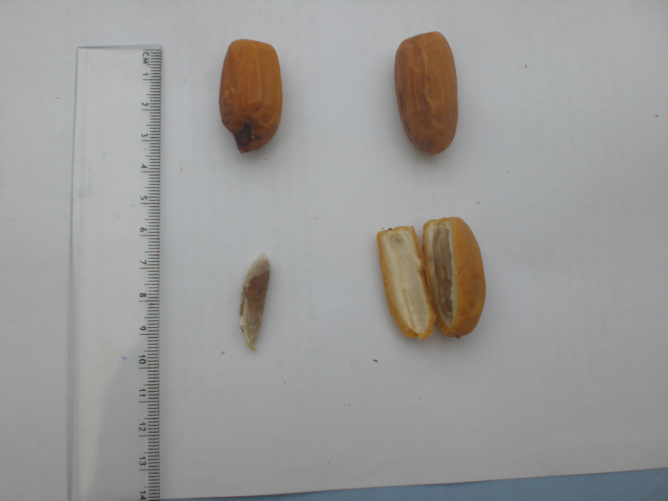 Tunisian dates called Kentichi